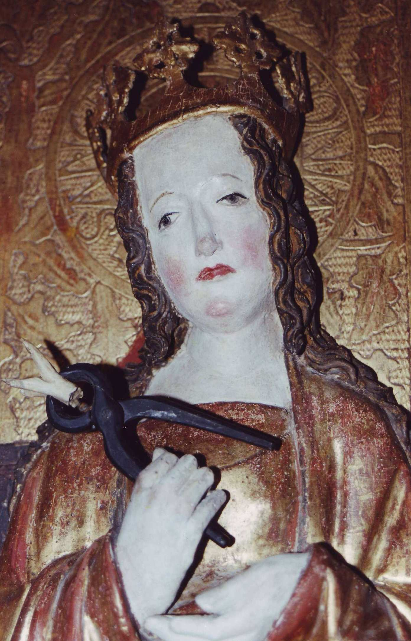 Saint Apollonia, sculpture is part of an gothic altar in Rossau (Saxony)